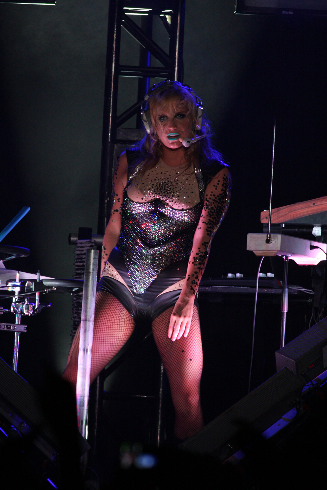 Kesha Hordern Pavilion Australia